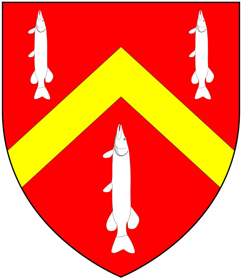 Arms of Waye of Torrington in Devon: Gules, a chevron or between three lucies hauriant argent (Vivian, Lt.Col. J.L., (Ed.) The Visitations of the County of Devon: Comprising the Heralds' Visitations of 1531, 1564 & 1620, Exeter, 1895, p.773). Pole, p.506, who blazons the arms as Gules, a chevron between three fishes naiant argent, thus with chevron argent not or and with the unnamed fish naiant not hauriant. These arms of Waye of Marsh are however sculpted (without tinctures) quartered by Kirkham of Blagdon in the 16th century Kirkham Chantry of Paignton Church, and show a chevron with fish hauriant, as per Vivian's blazon. Nicholas Kirkham (d.1516) of Blagdon married Jane Waye, daughter and heiress of Robert Waye of Marsh (Vivian, p.516, pedigree of Kirkham) in the parish of Newton St Cyres (Prince, John, (1643–1723) The Worthies of Devon, 1810 edition, London, p.554). These are similar to the arms displayed in Exeter Guildhall, Devon, of "John Waye, Sheriff (of Exeter) 1541", shown as Gules, three lucies hauriant in fess argent. They should be distinguished from the completely different arms of Way of St Giles-in-the-Wood, near Great Torrington in Devon, often called "de Via" (i.e. from the way) arms, later apparently adopted by the Pollard family of Way and also by the Davie family (Davy baronets) of Creedy, Devon, which claim their original surname as de Via.